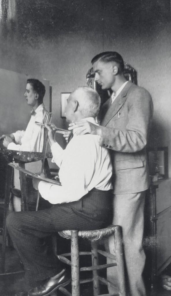 Konstantin Somov painting portrait of Boris Snezhkovsky with Boris standing behind